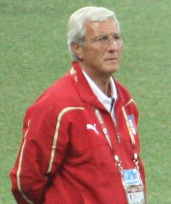 Marcello Lippi coaching his team during the 2010 World Cup.